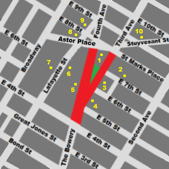 A schematic map of Cooper Square (shown in red) in lower Manhattan, New York City, showing the location of some buildings: 1. Cooper Union Foundation Building 2. McSorley's Old Ale House 3. Cooper Union New Academic Building 4. Cooper Square Hotel 5. Village Voice 6. Public Theatre 7. Astor Place Theatre (Category:Blue Man Group) 8. Clinton Hall (Mercantile Library Building) 9. Kmart (Wanamaker Department Store Annex) 10. Hamilton Fish House